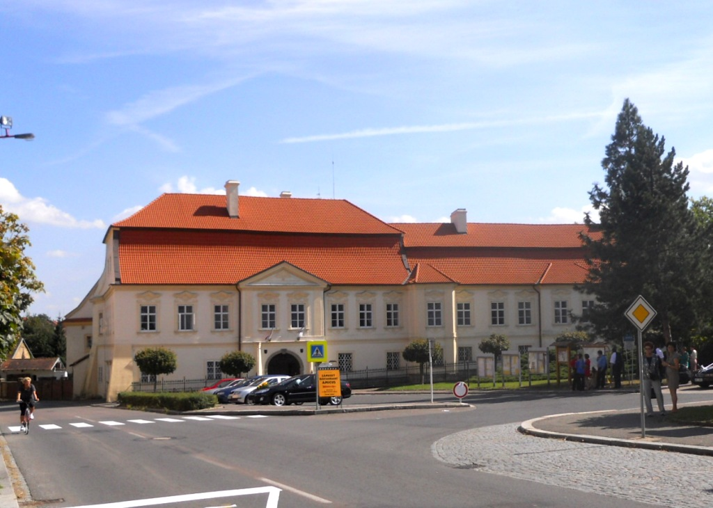 Chrast Castle from the square